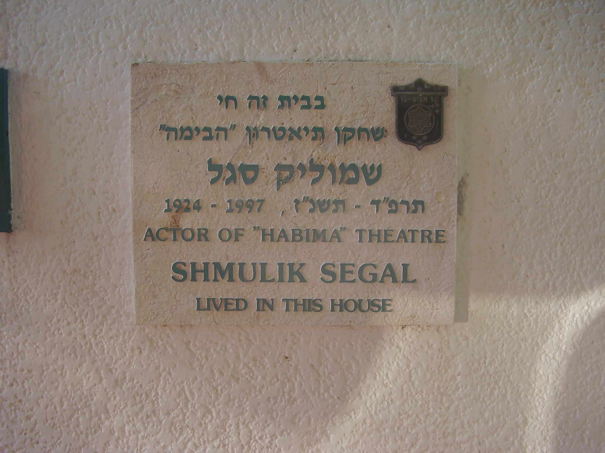 memorial plaque to the actor shmulik segal in tel aviv לוחית זיכרון על ביתו של שמוליק סגל על ביתו ברח' לאון בלום 16 בתל אביב